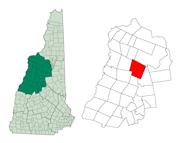 Map of a municipality in Belknap County, New Hampshire